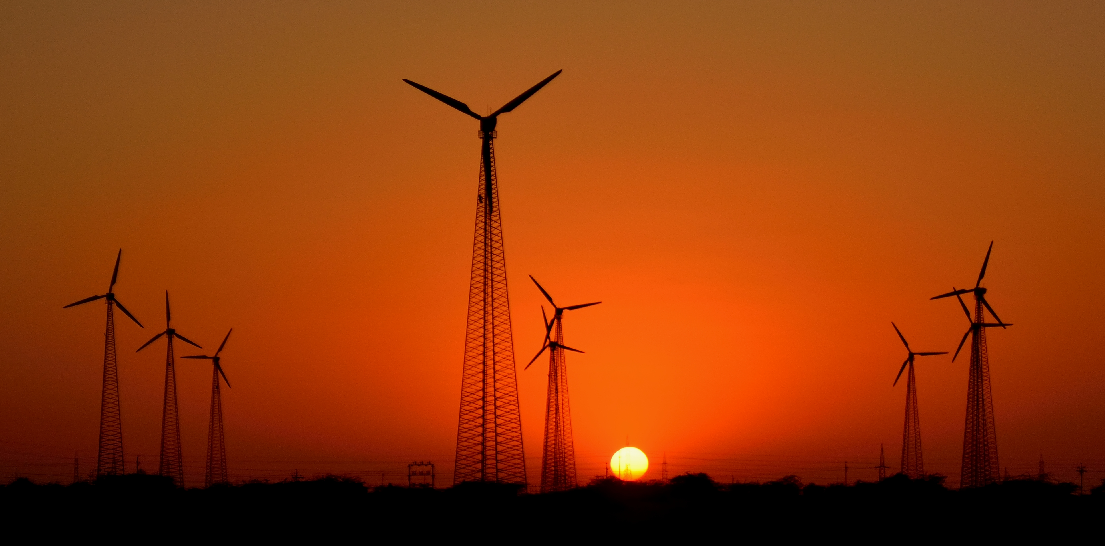 Bada bagh: Already covered in many movies, what you don't want to miss being these in the evening is this sunset. That happens on the other side of the highway and is clearly visible form this place.